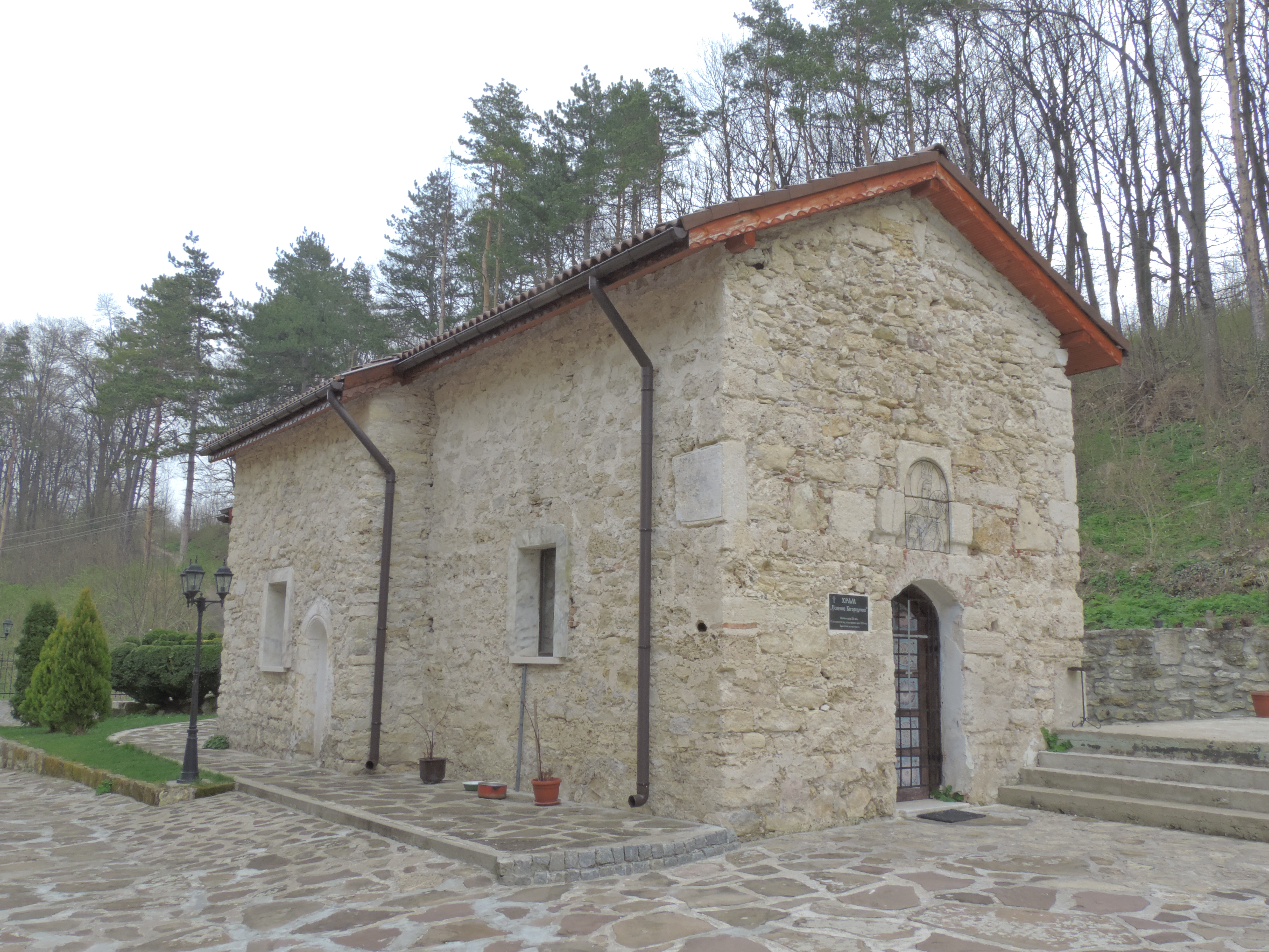 Church in the Izvor Monastery "Domition of the Theotokos"